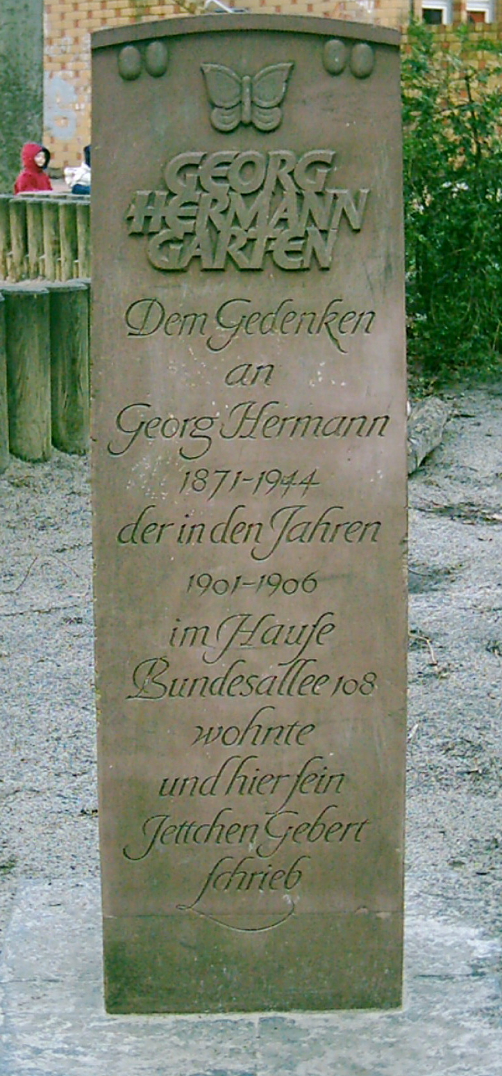 The memorial stone for Georg Hermann is located in the Georg-Hermann-Garten in Berlin-Friedenau.